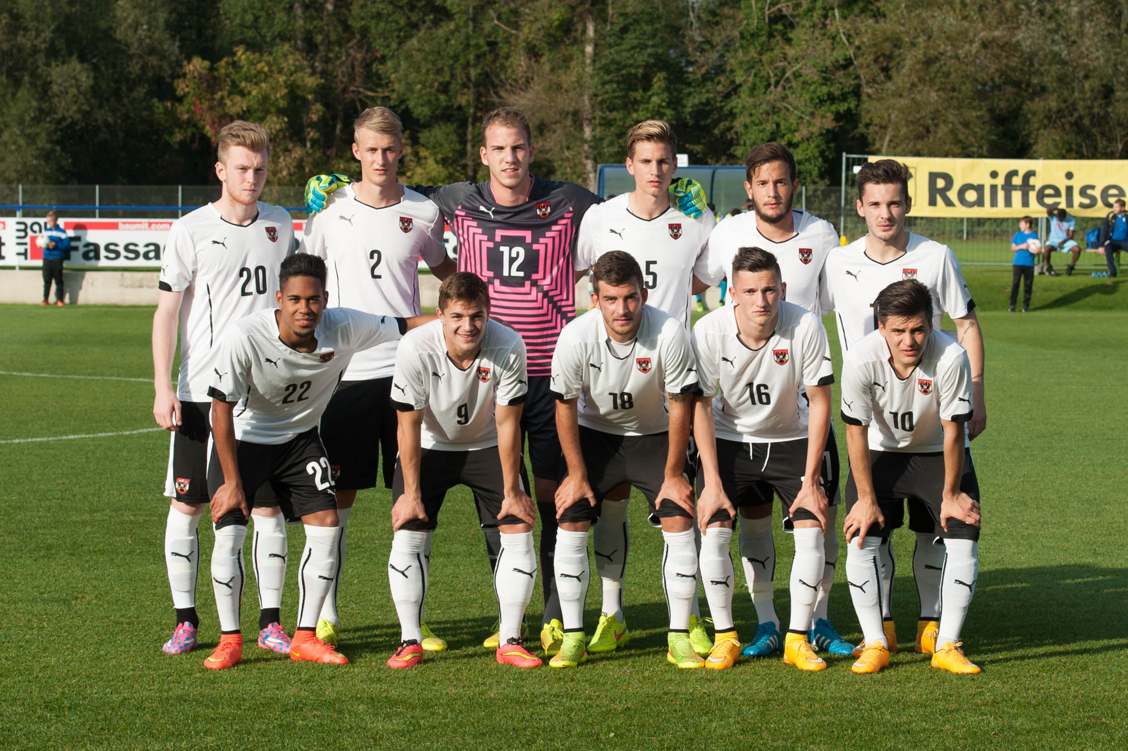 U21 Austria - DR Congo, 2014-10-12: U21 Austria